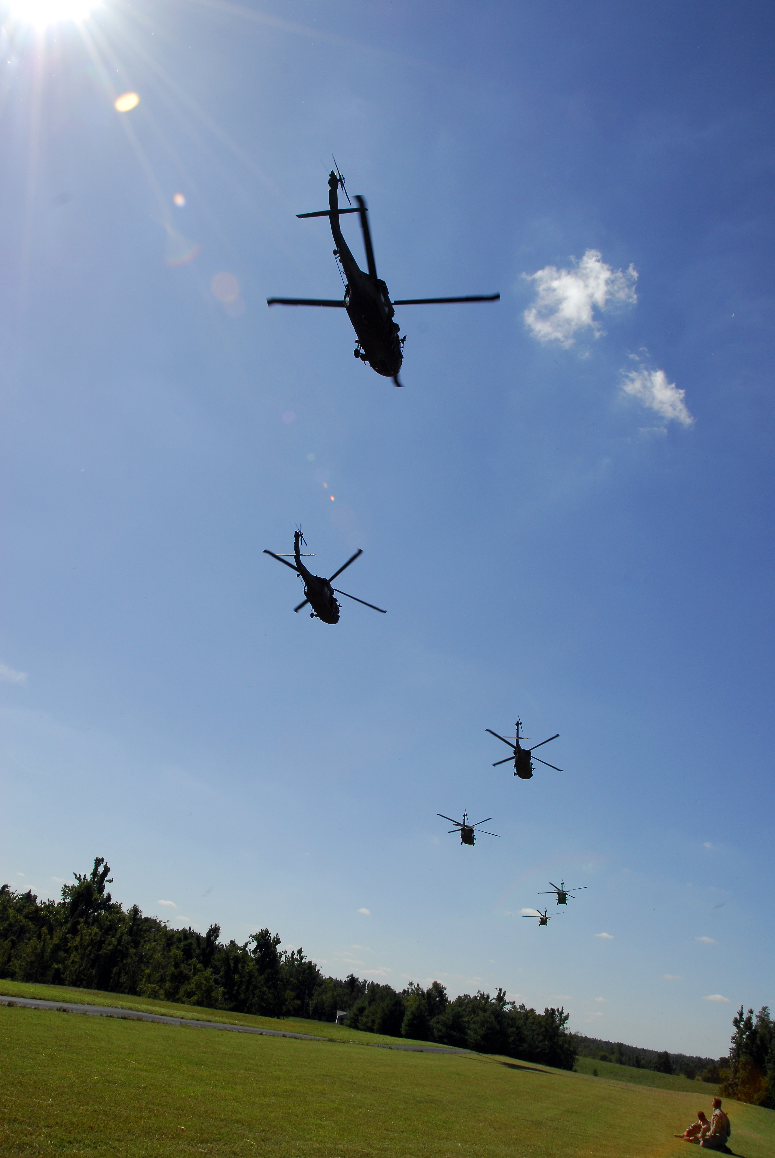 The 5th Battalion, 101st Aviation Regiment, 101st Combat Aviation Brigade set up a forward area rearming and refueling point at a local farm in Troy, Tenn. Sept. 30 during Operation Diomedes, an Air Assault exercise offering Soldiers from the 5-101 and 2nd Battalion, 327th Infantry Regiment, 1st Brigade Combat Team the opportunity to train in unfamiliar terrain. PHOTOS BY SADIE E. BLEISTEIN